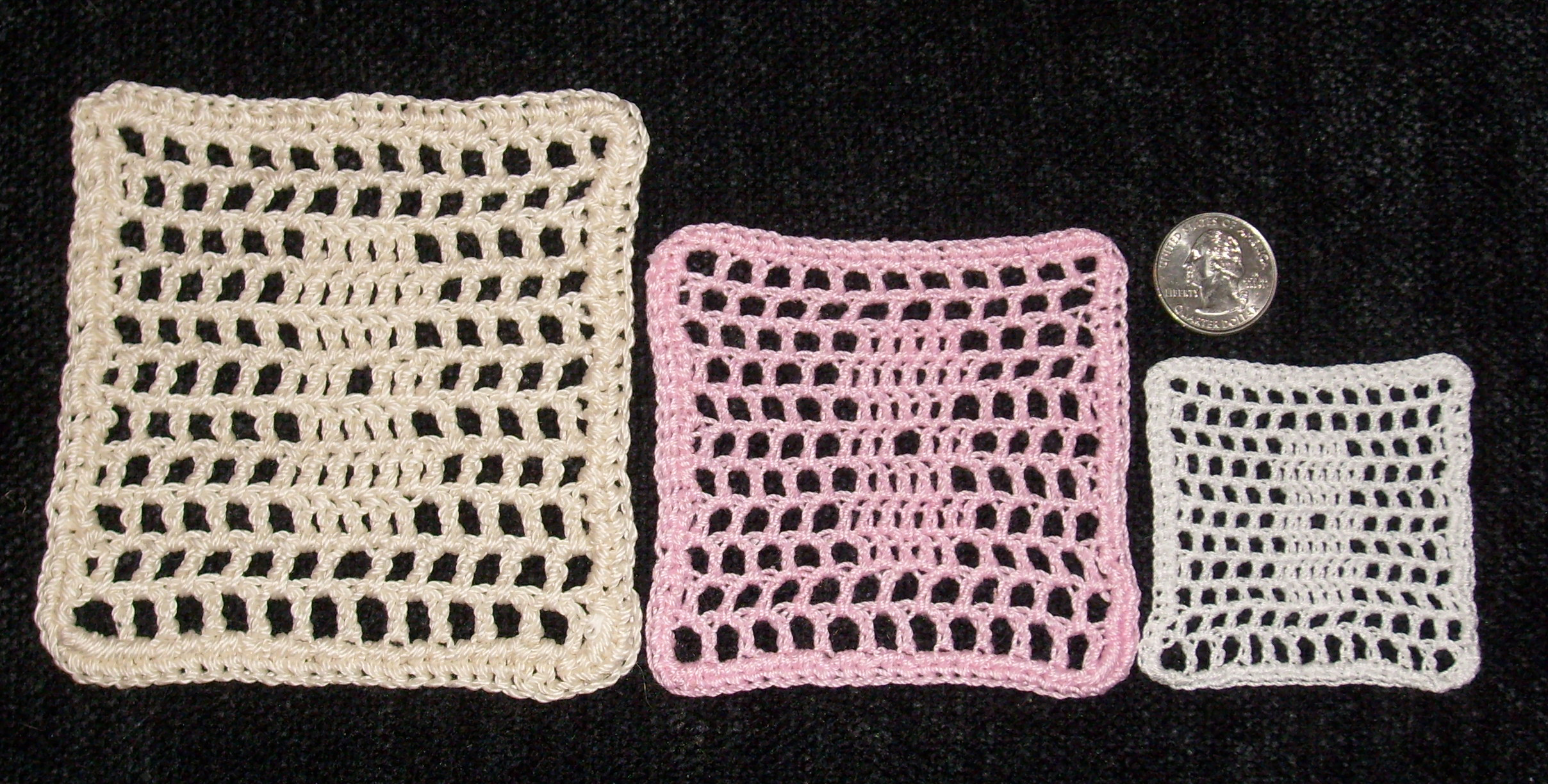 Demonstration of thread weight in crochet: three samples of filet crochet in the same pattern with different thread weights. From left to right: size 3, size 10, size 20. A U.S. quarter is included for size comparison. Respective crochet hooks used: 3.5mm, 2 (U.S.), and 6 (U.S.). All mercerized cotton, original design.